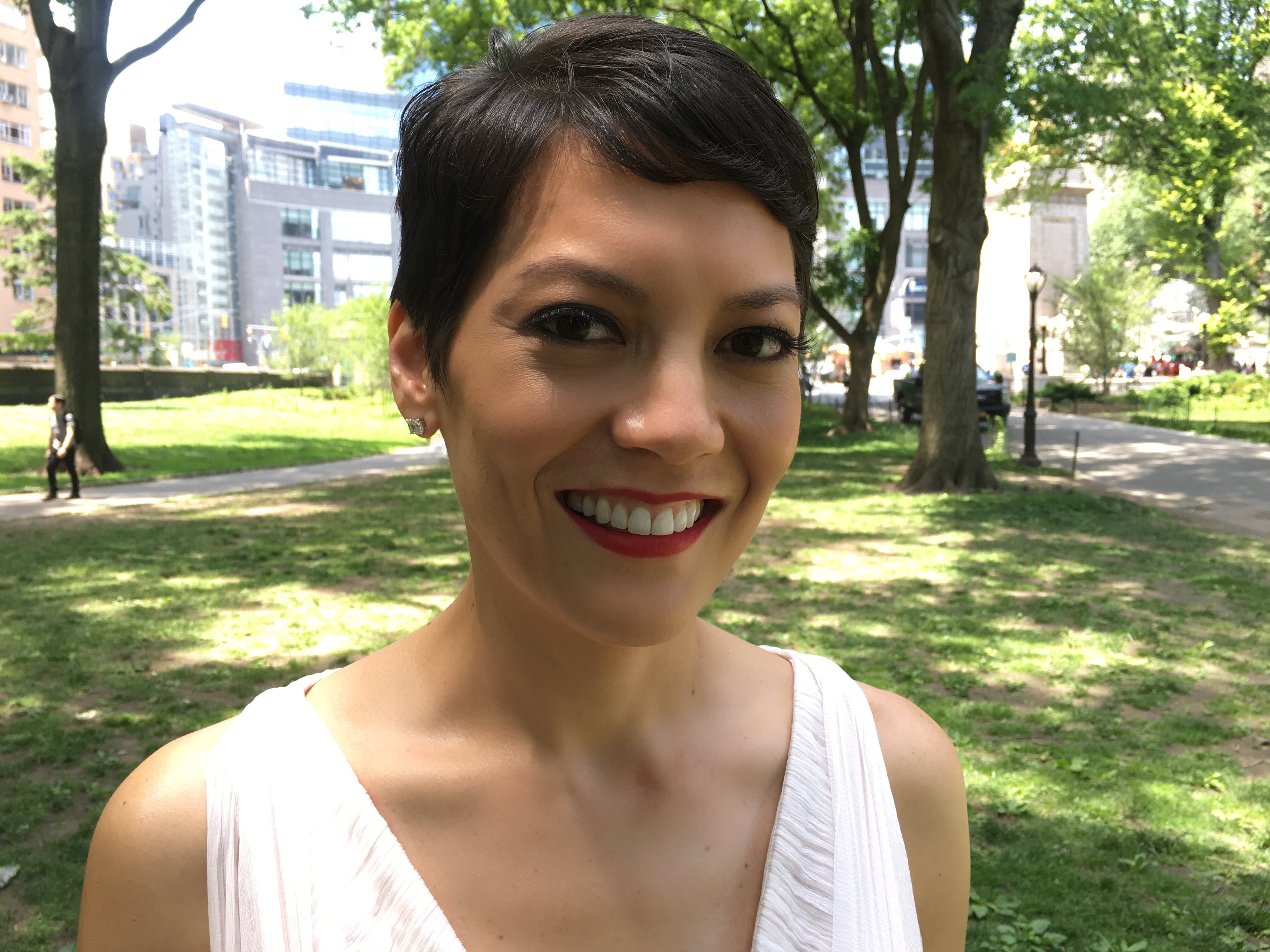 Anne Akiko Meyers in Central Park